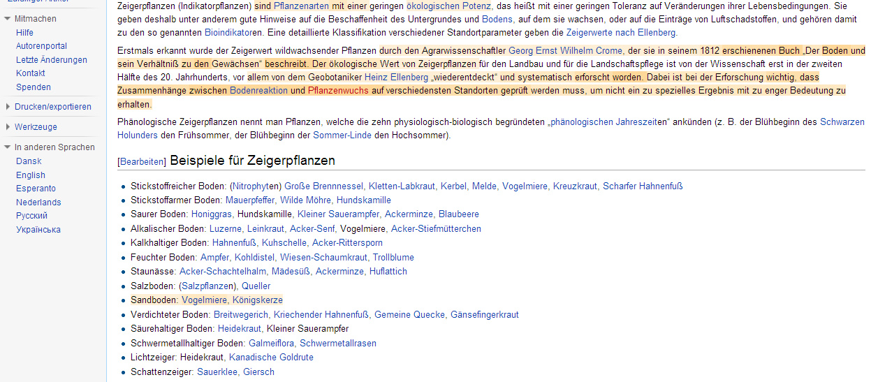 sample of WikiTrust